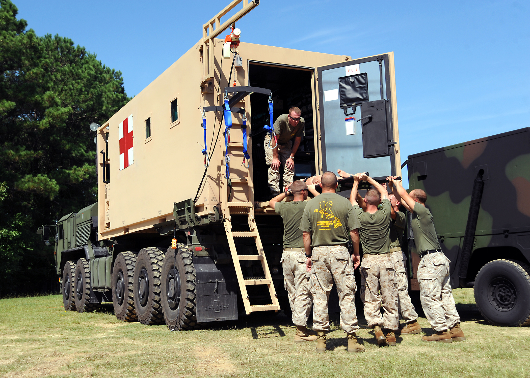 Marines and sailors stationed at Camp Lejeune, N.C., demonstrate loading an injured Marine into the back of the Mobile Trauma Bay.